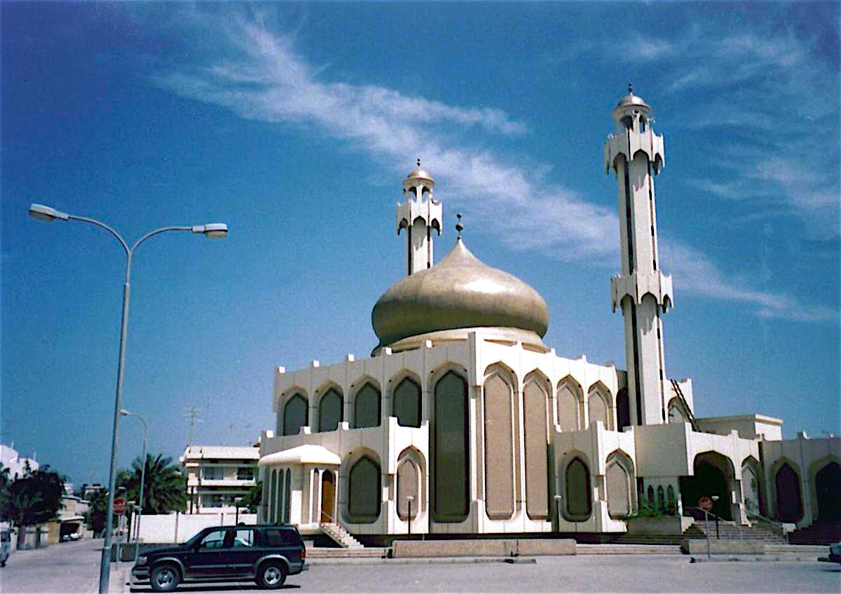 A mosque near the corner of Al Adliya Avenue and Osama bin Ziad Road in Manama, Bahrain.